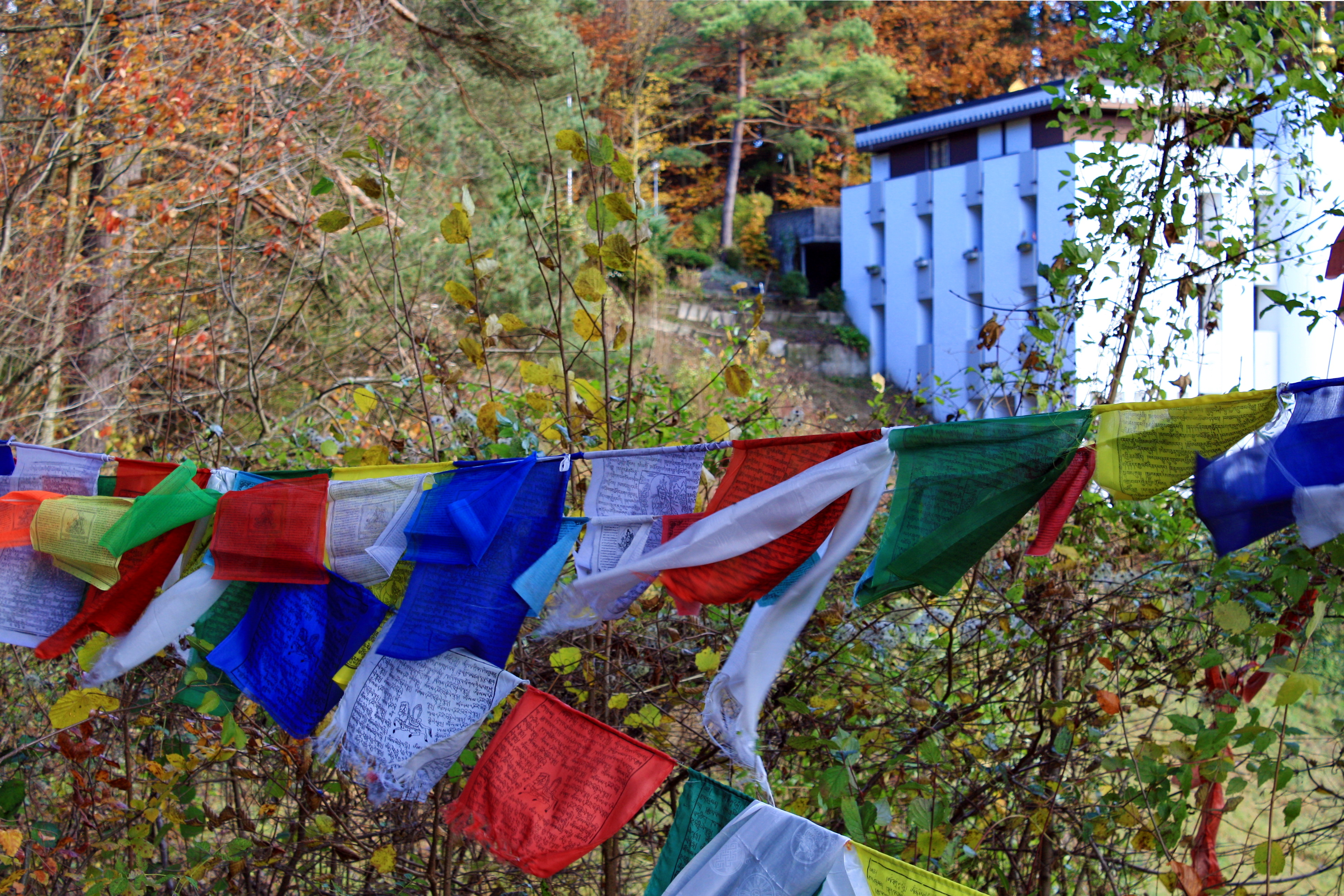 Shrine of the Tibetan monastery Tibet Institute Rikon in Zell-Rikon (Switzerland).